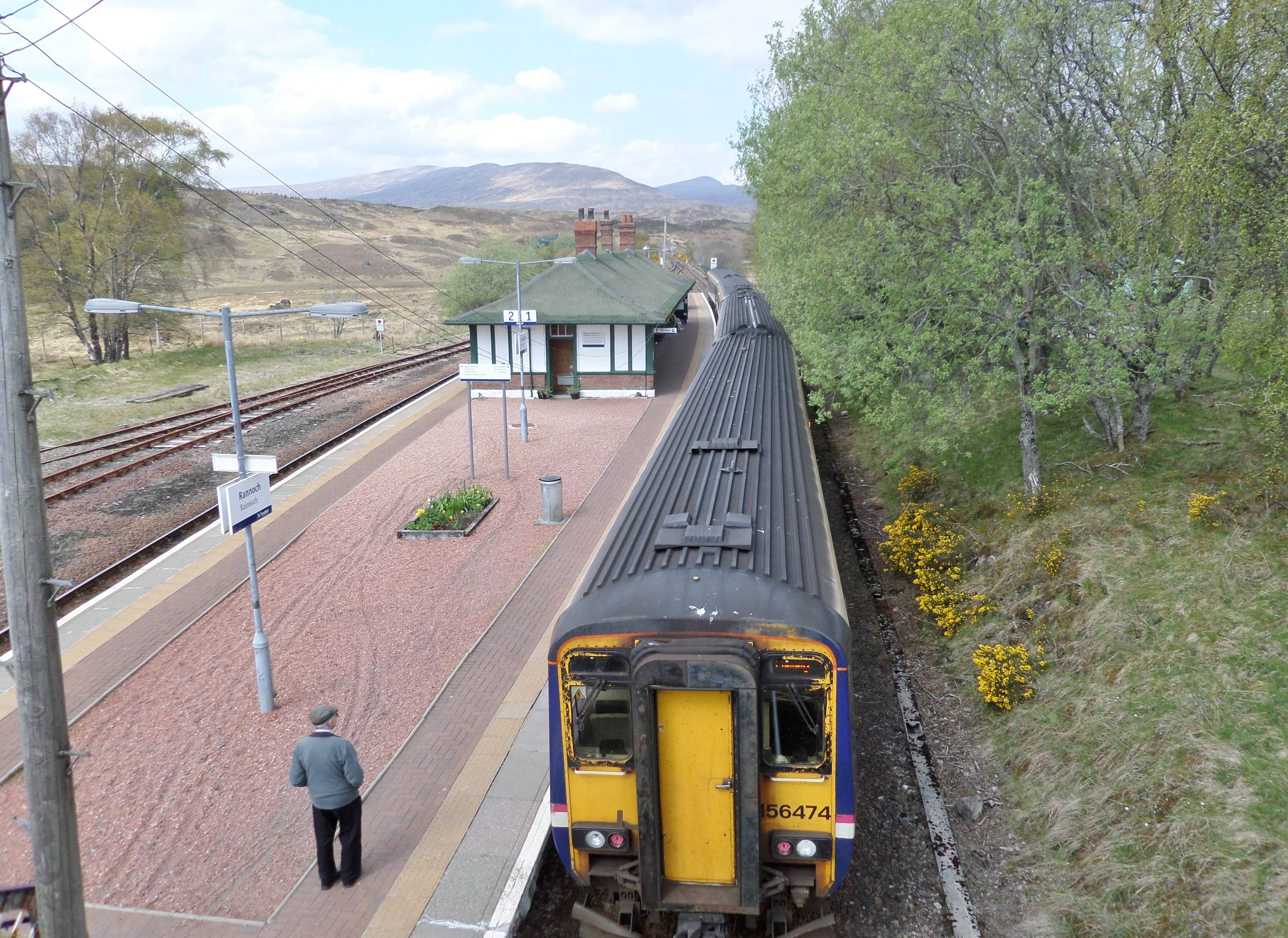 Rannoch railway station, view towards Corrour, West Highland Line, Scotland.